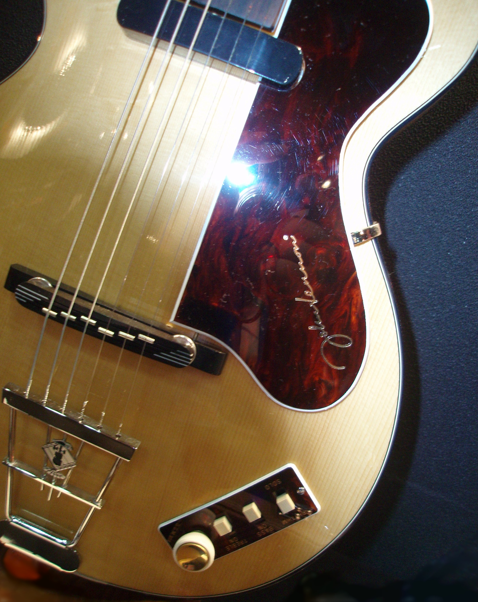 Höfner Club40 John Lennon Edition (Limited)